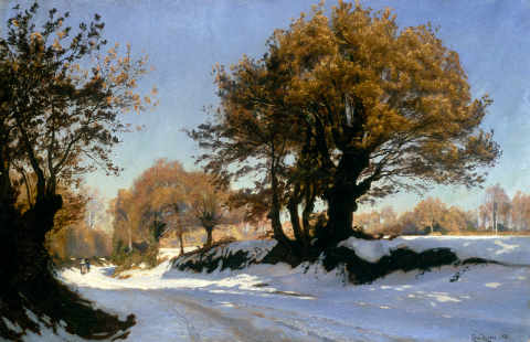 Vinterbillede_fra_Bretagne,_Den_første_sne (Winter Scene from Brittany, the First Snow), painting by Danish artist Christian Zacho.